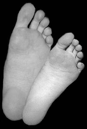 human solesEsperanto: homaj plandoj